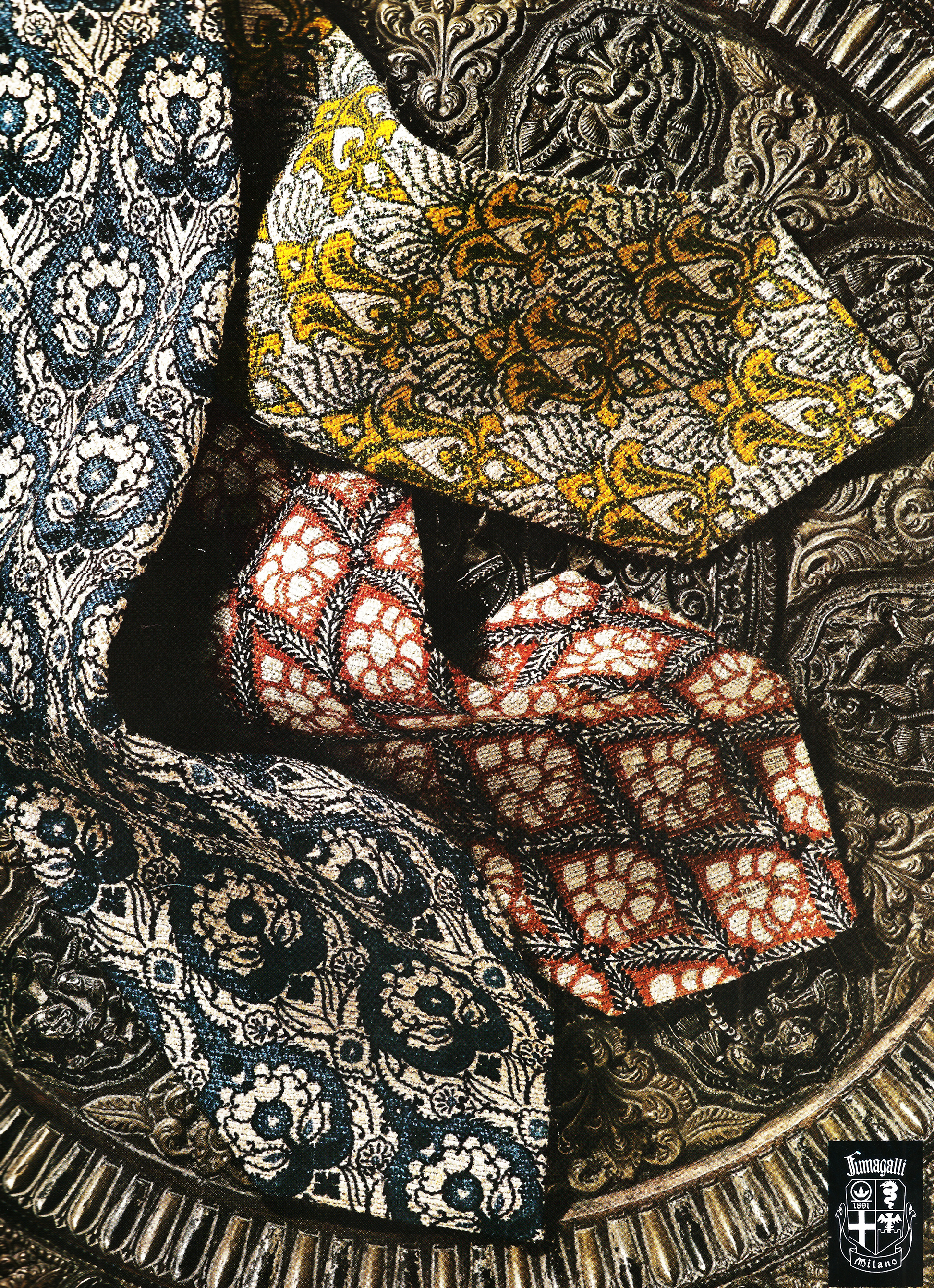 Fumagalli 1969 ad